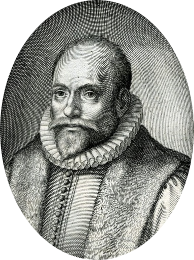 Jacobus Arminius